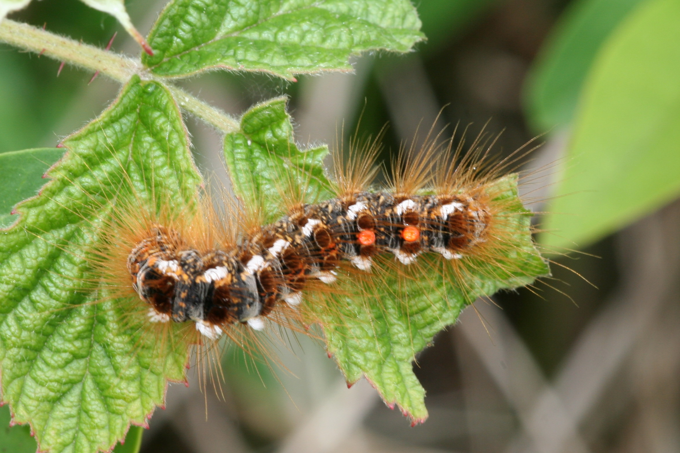 Euproctis chrysorrhoea